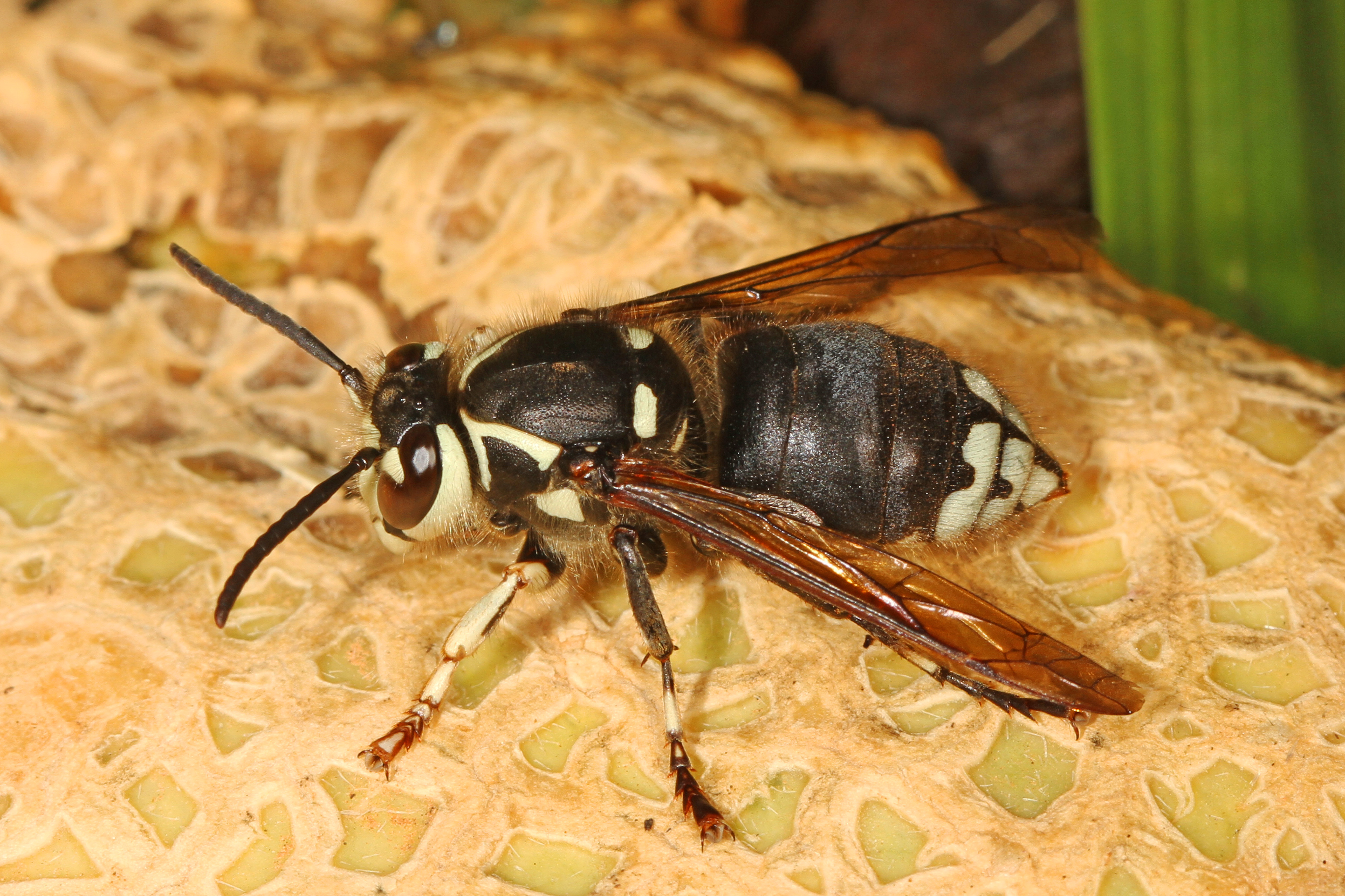 Bald-faced Hornet - Dolichovespula maculata, Herndon, Virginia